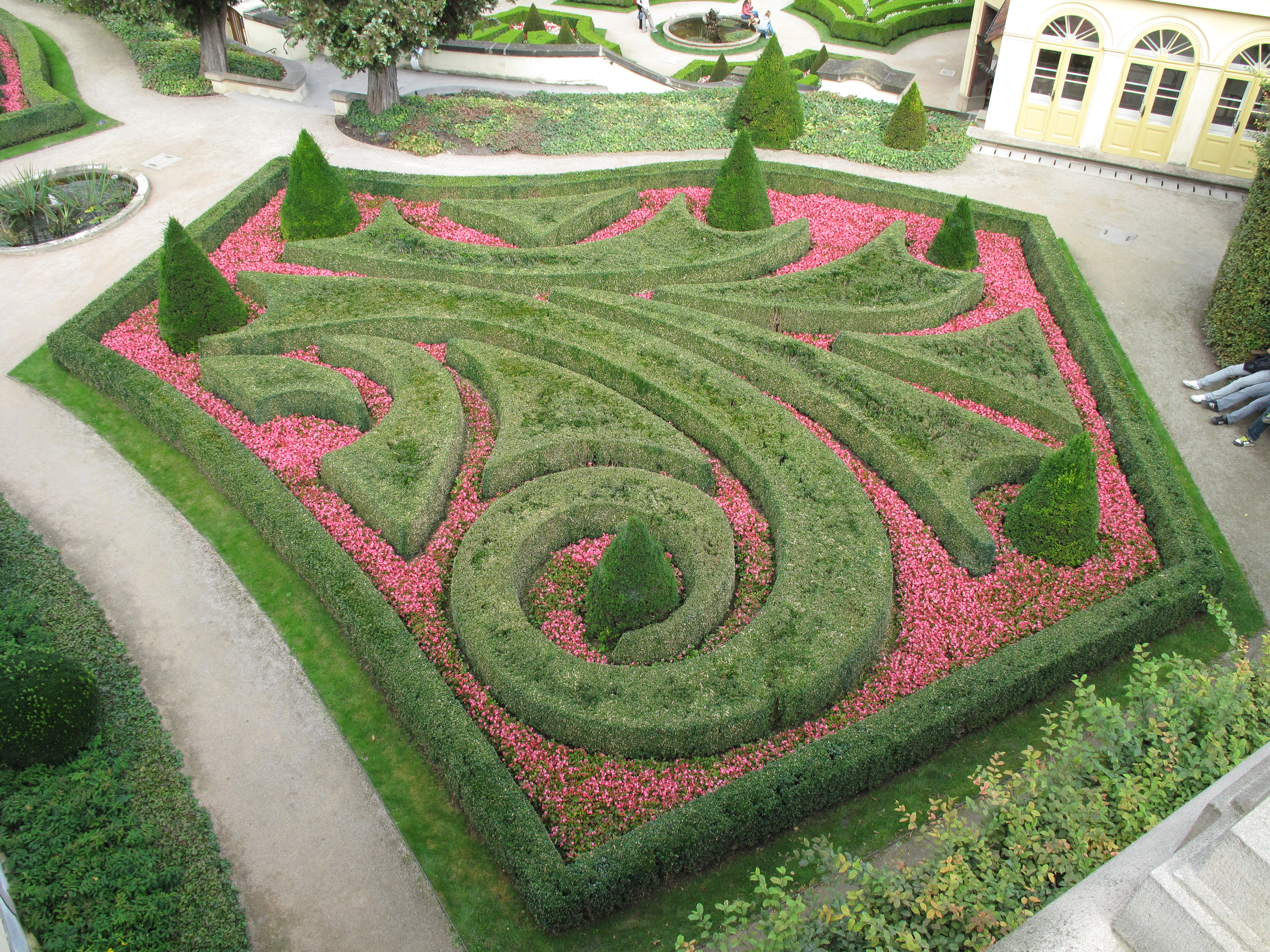 Vrtba Garden - different parts, Prague, Lesser Quarter, Czech Republic.